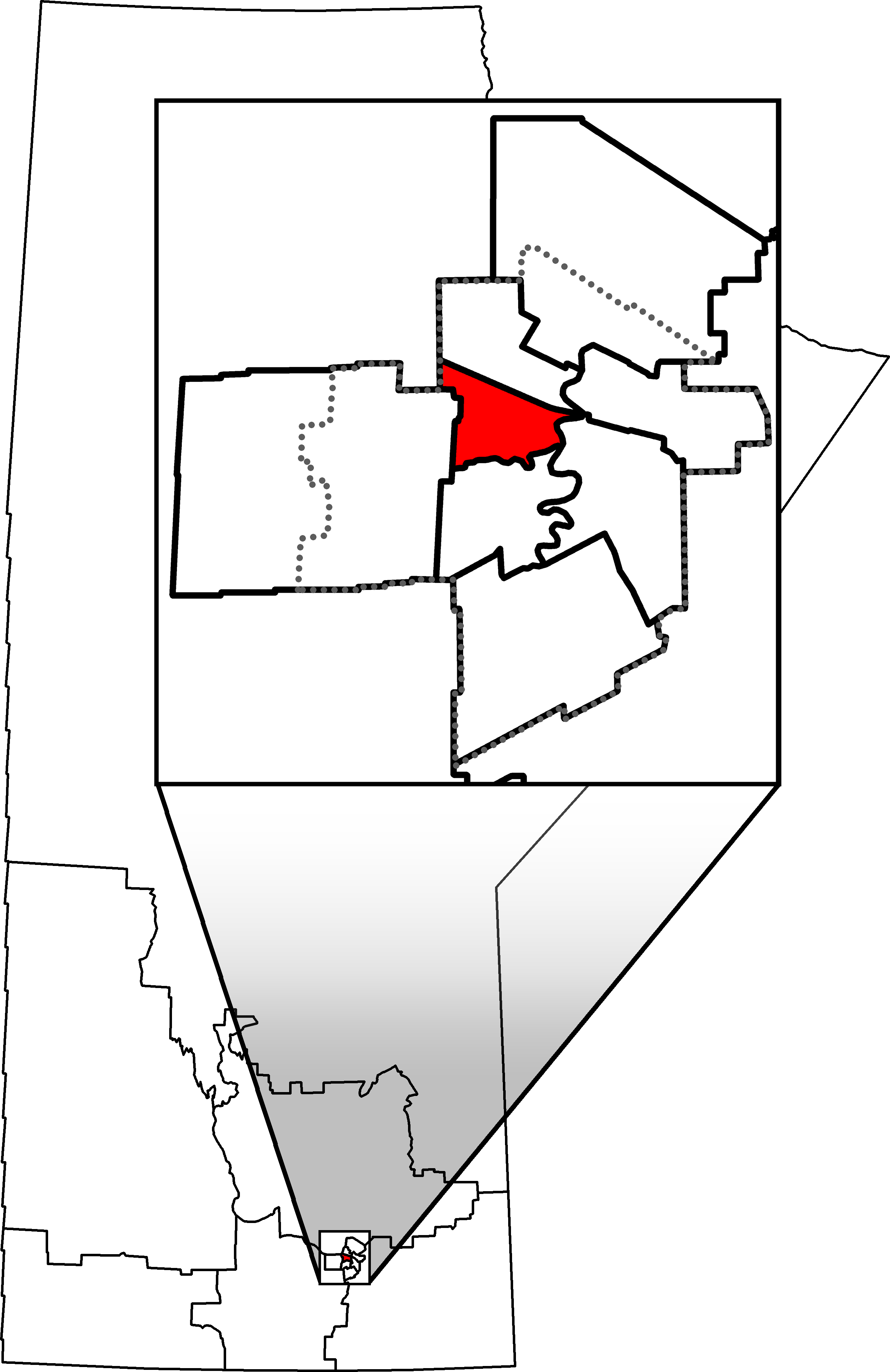 Federal Electoral District in Manitoba, Canada as of the 2013 Representation Order.